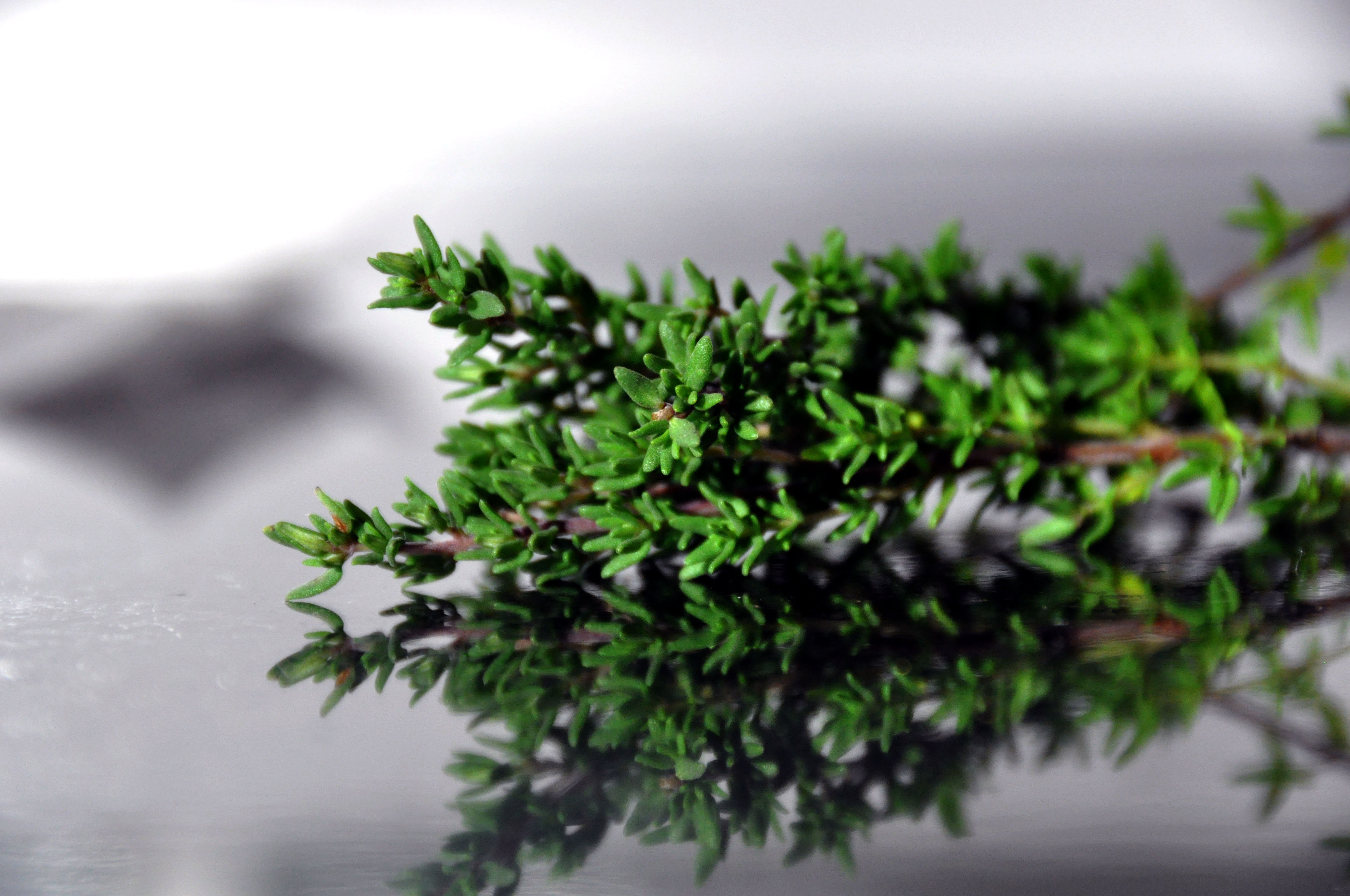 Thyme